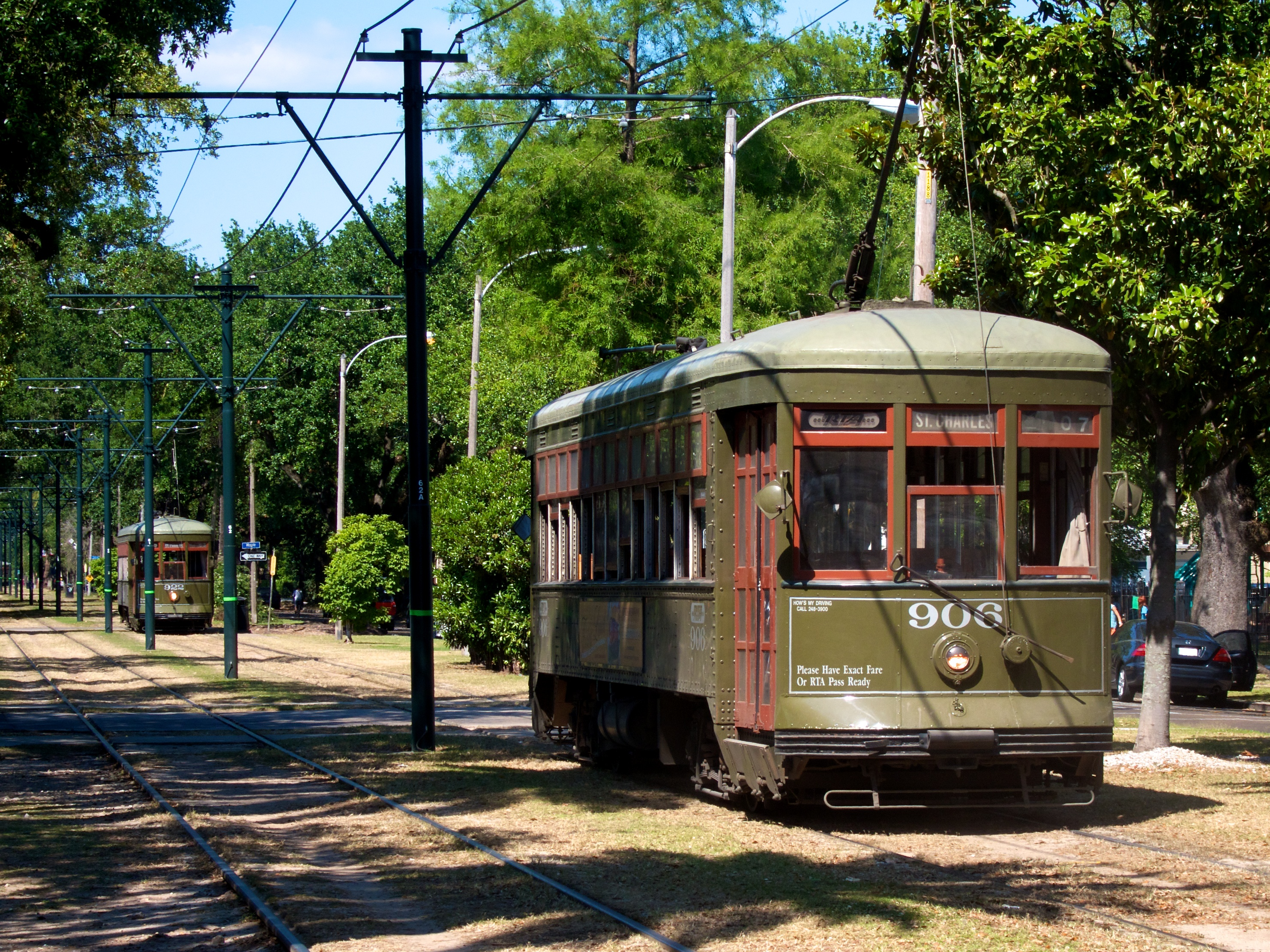 New Orleans: St. Charles Avenue streetcar line